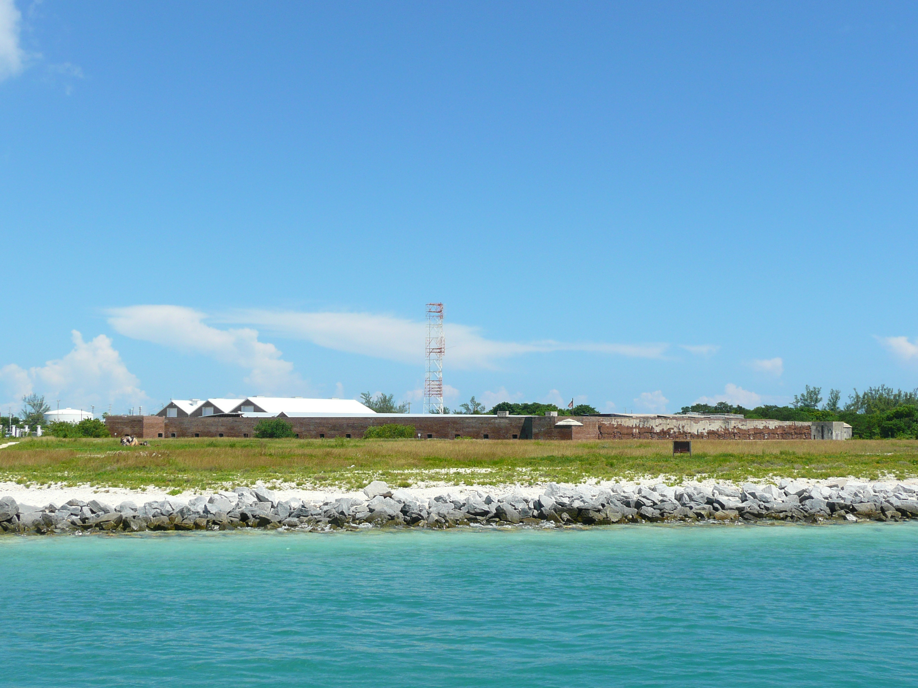 Digital photo taken by Marc Averette. Fort Zachary Taylor in Key West, Florida as seen from the Gulf of Mexico.